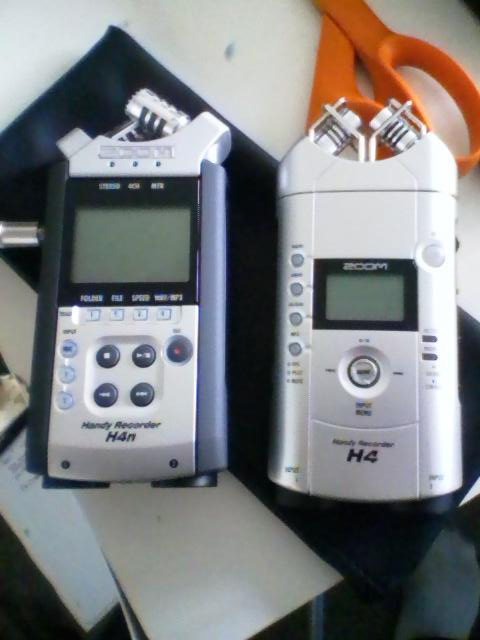 Models H4n (left) and H4 (right) from Zoom Corporation.